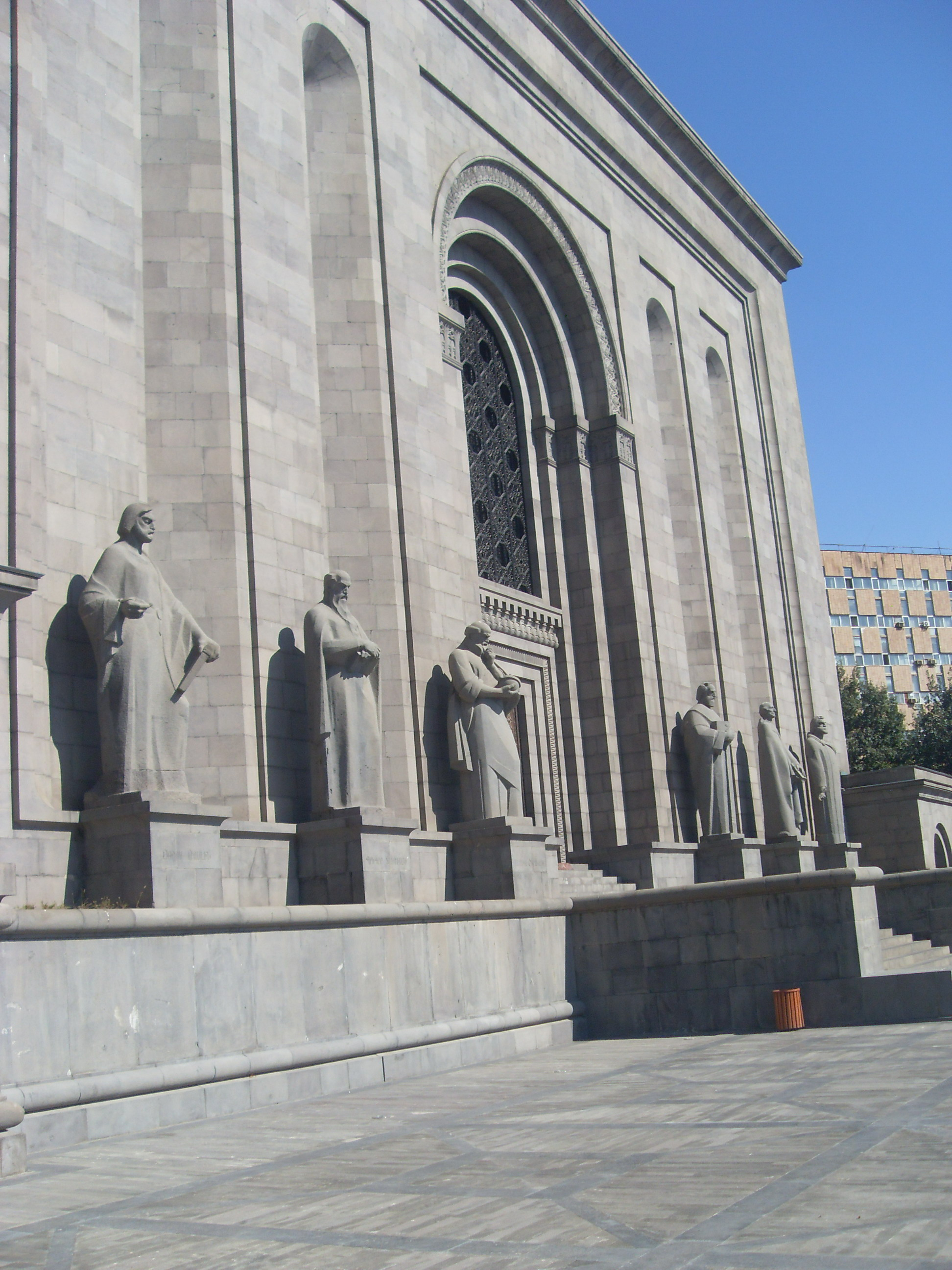 Matenadaran, 1957, archit Mark Grigoryan 6/81